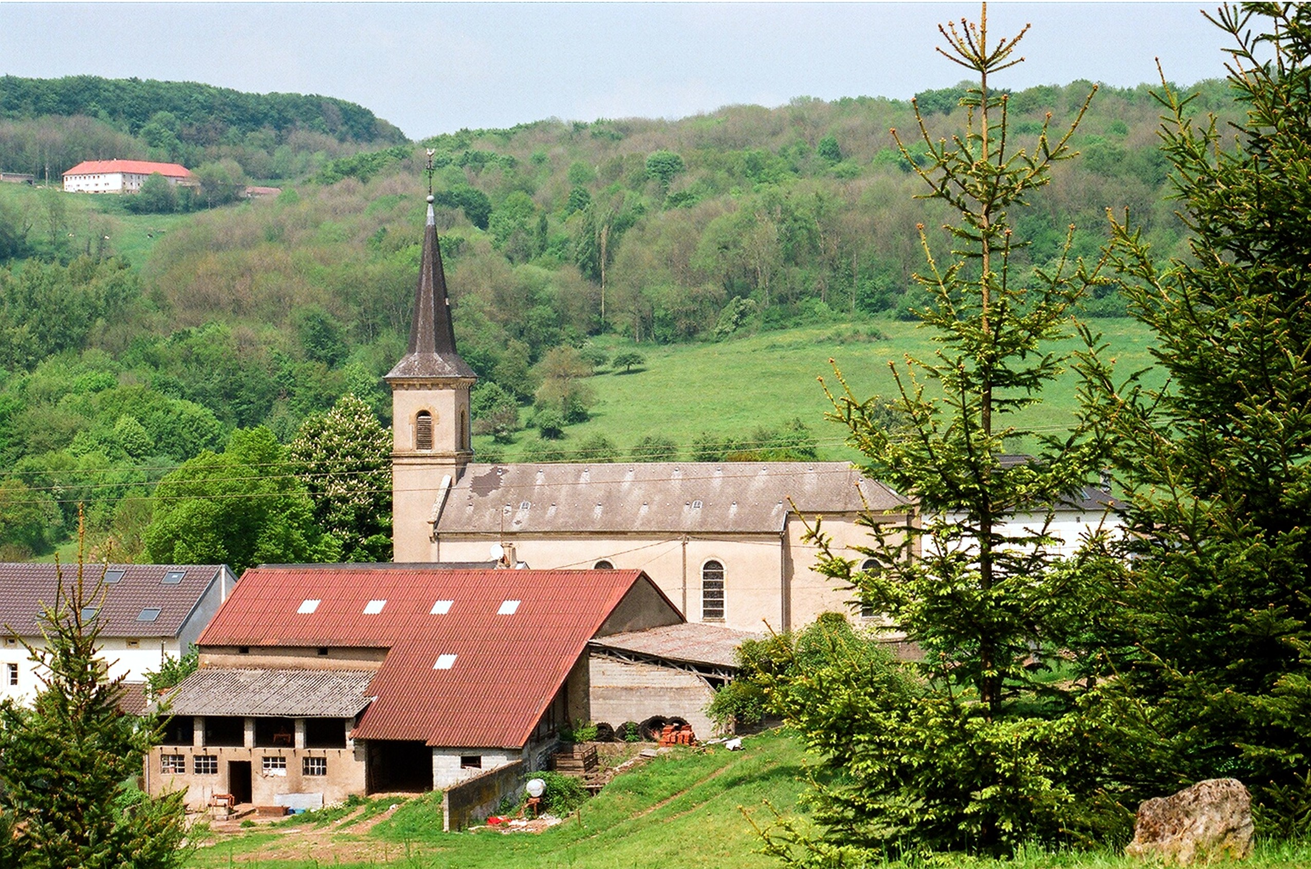 Manderen, the village church